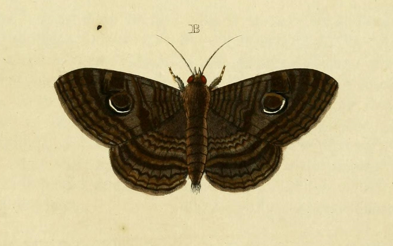 Spirama obscura from Cramer and Stoll-uitlandsche kapellen vol. 3- pl 274